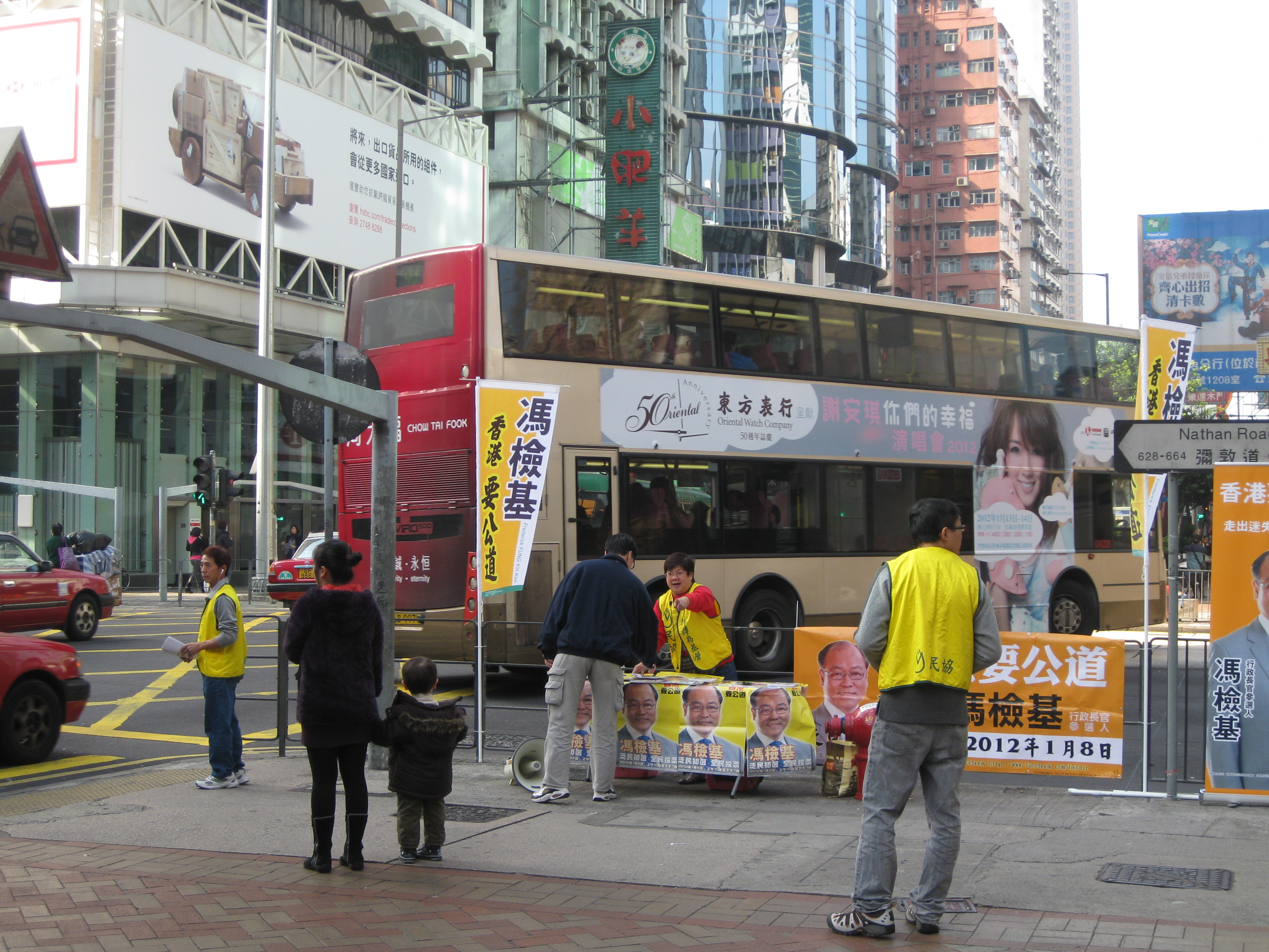 2012 HKCE pan-democratic camp primary election Frederick Fung's team